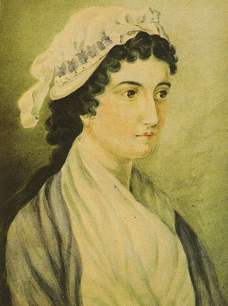 Malinovskaja S.A. The unknown artist. 1790.